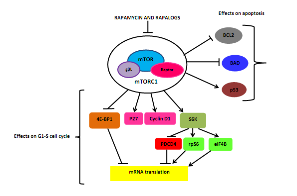 Mechanism of action of Rapamycin and its derivatives on cancer cells